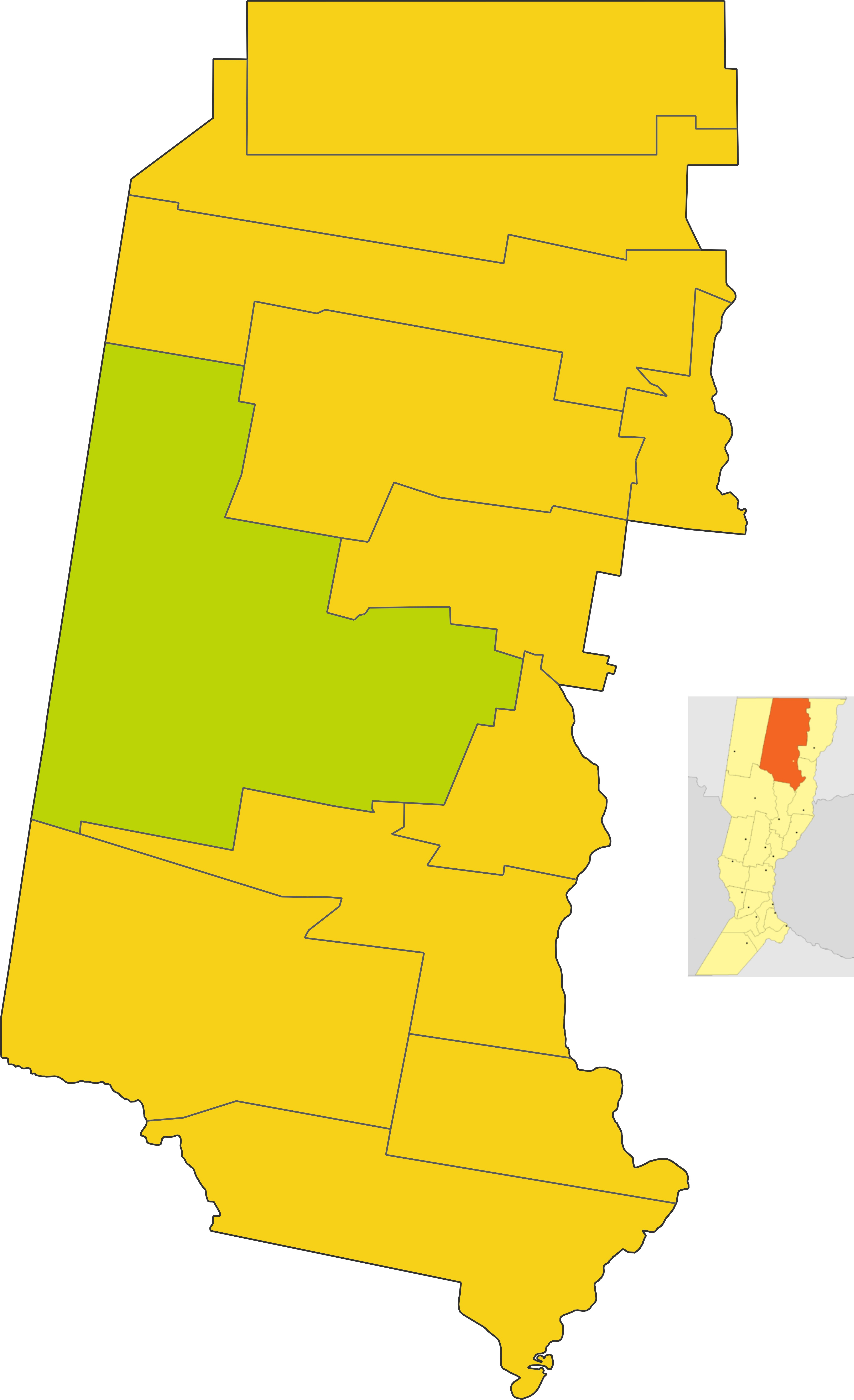 Map of the comuna de Fortin Olmos in Vera department, Santa fe province, Argentina